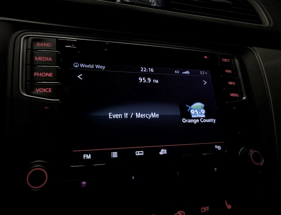 Radio Data System (RDS) on 95.9 KFSH La Mirada